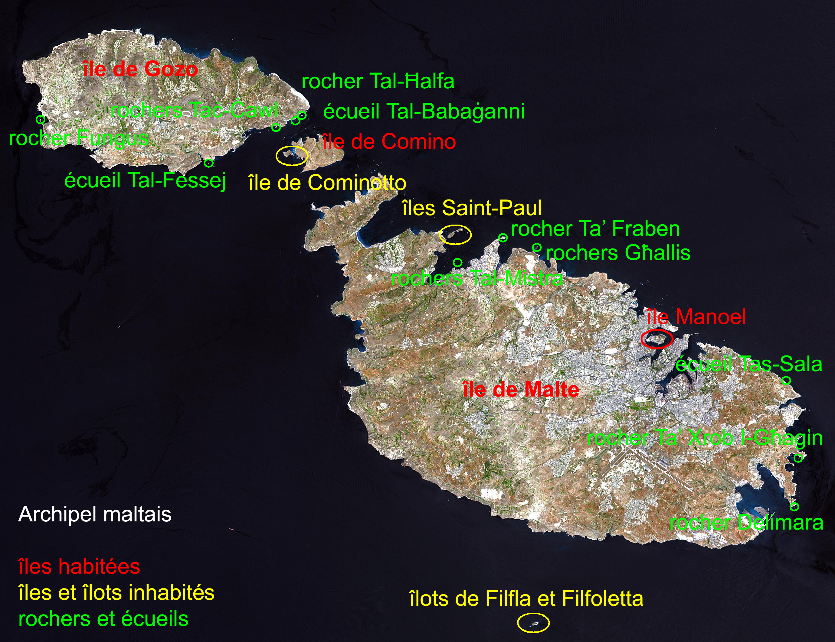 Malta, an independent republic, consists of a small group of islands—Malta, Gozo, Kemmuna, Kemmunett, and Filfla—located in the Mediterranean Sea south of Sicily, with a total area of 316 square kilometers. The capital and leading port of the country is Valletta, which appears as a gray patch around the two deep inlets on Malta’s northern coastline. About 400,000 people live on this island nation. The islands of Malta consist of low-lying coralline limestone plateaus surrounded by impermeable clay slopes. The highest point is 239 meters above sea level. The many ancient monuments and remains on Malta attest to the great age of its civilization. Remains from Stone Age and Bronze Age peoples have been found in subterranean burial chambers. The islands became a Phoenician colony about 1000 B.C. They were later occupied by the Greeks, who called the colony Melita, and later the islands passed successively into the possession of Carthage and Rome. The islands were occupied by Arabs in 870 A.D. A Norman army conquered the Maltese Arabs in 1090, and Malta was later made a feudal fief of the kingdom of Sicily. In 1530 Holy Roman Emperor Charles V granted Malta to the Knights of Saint John of Jerusalem, who ruled the islands until the 19th century. In 1798 Napoleon invaded and occupied the islands during his Egyptian campaign. Unwilling to be ruled by France, the Maltese appealed to Britain, and in 1799 British naval officer Horatio Nelson besieged Valletta and compelled the withdrawal of the French. In 1814 Malta became part of the British Empire as a crown colony. This natural-color image was acquired on July 29, 2001, by the Advanced Spaceborne Thermal Emission and Reflection Radiometer (ASTER) aboard NASA’s Terra satellite. Image courtesy NASA/GSFC/MITI/ERSDAC/JAROS, and U.S./Japan ASTER Science Team NASA]